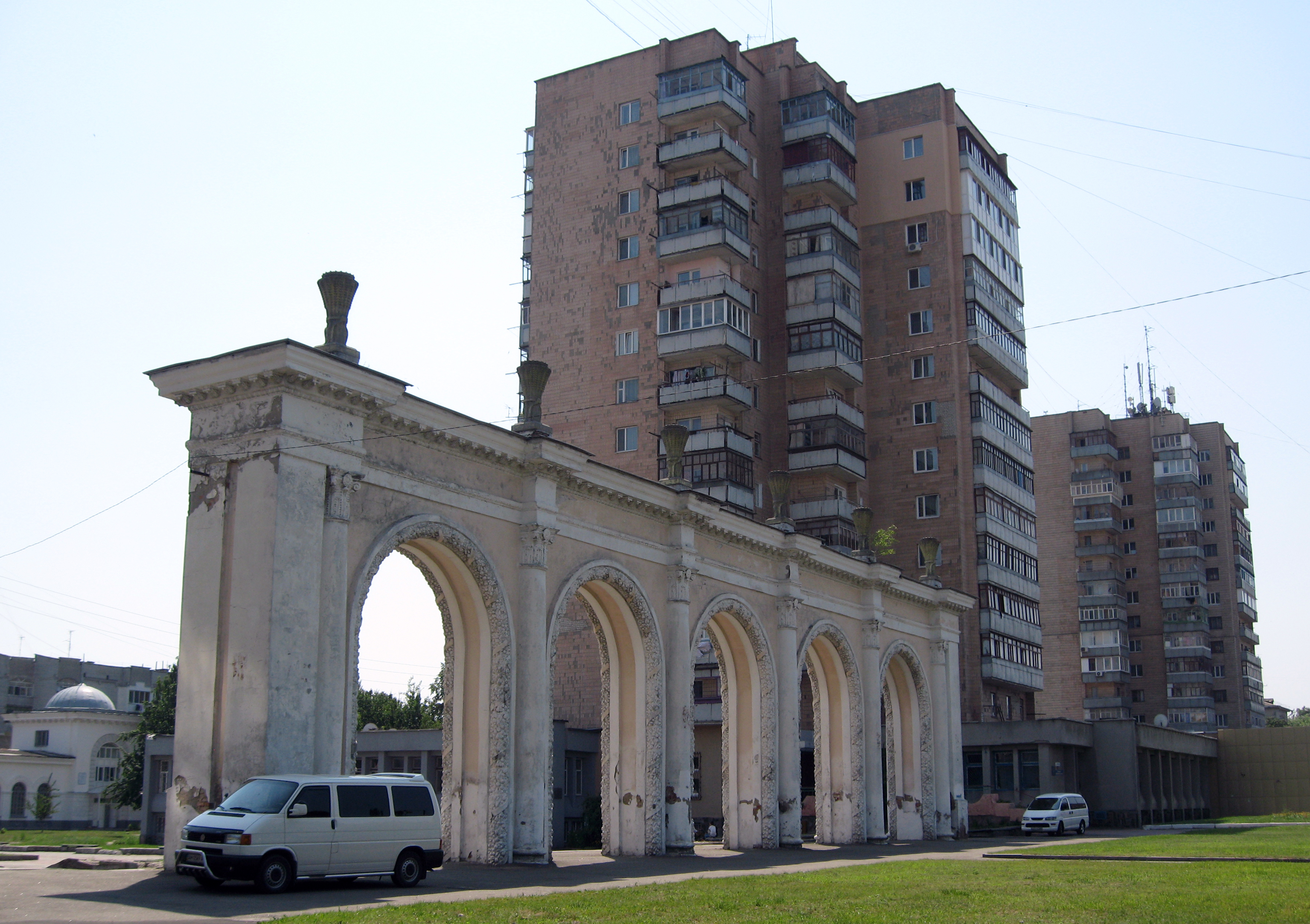 Kyivska Bulevard in Zhytomyr (Ukrainian: Житомир